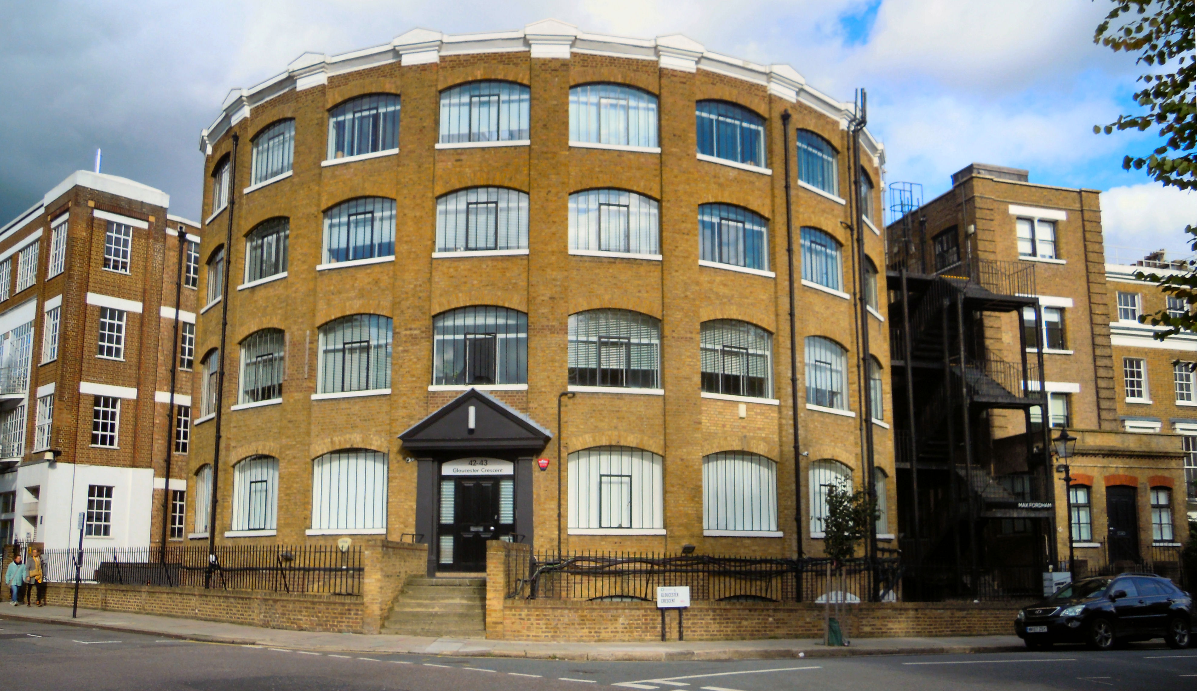 The School of Sound Recording London on Gloucester Crescent in Camden Town based in the distinctive rotunda-shaped Piano Factory has been there for over a hundred years, built for Collard and Collard who were the oldest of the well-known piano manufacturing firms of the St Pancras area. The building was renovated with recording studios, green screen filming area and editing suites to be used as educational and commercial facilities by SSR.